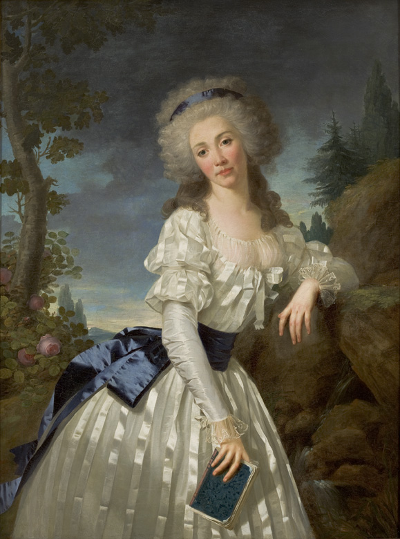 Portrait of a Lady with a Book, Next to a River Source